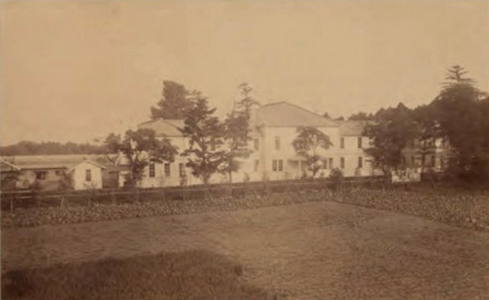 The School for the Blind and the Deaf, Tokyo, Japan. As the original source claims the image was produced in 1900 it should be in the public domain.